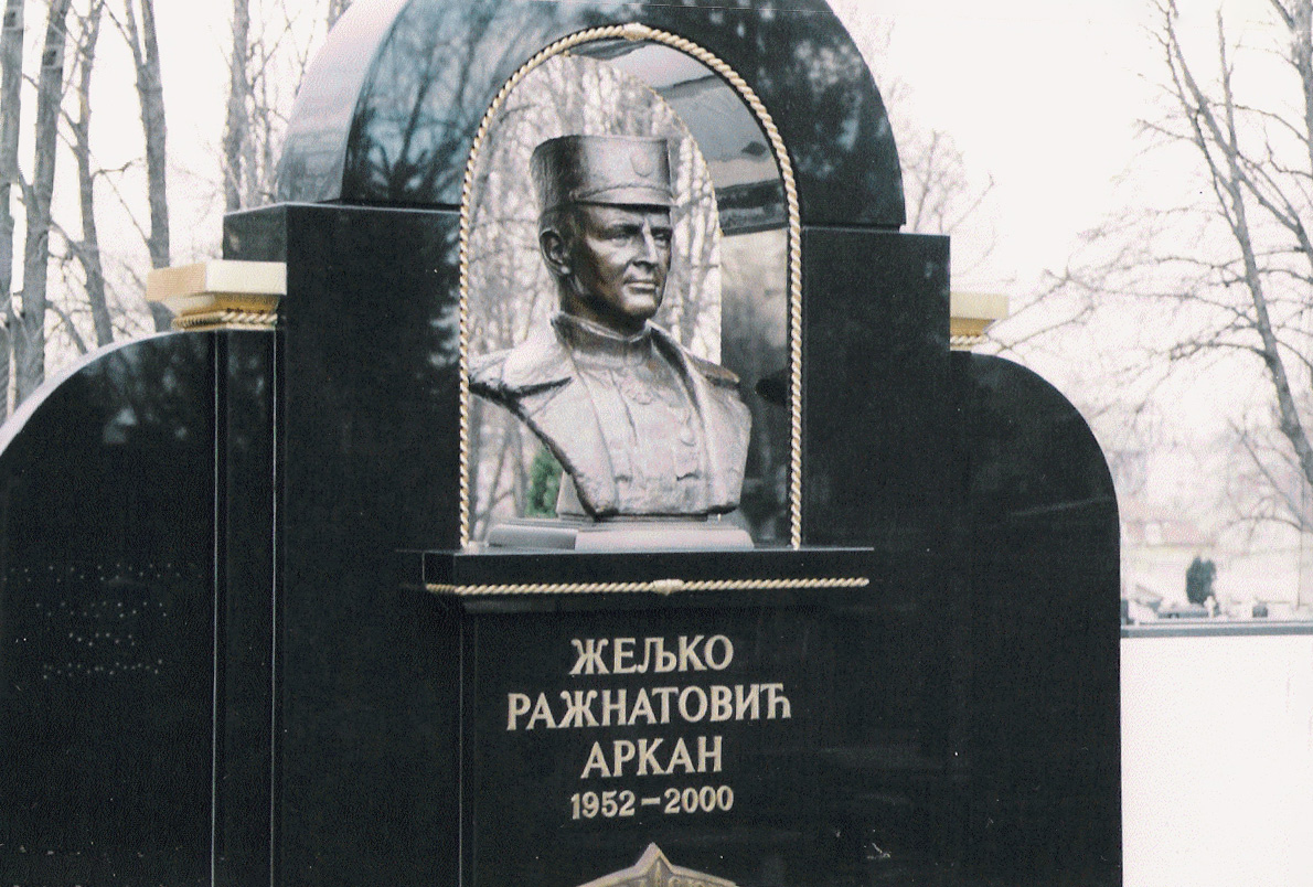 Grave of Željko Ražnatović - Arkan. New cemetery in Belgrade, Serbia.